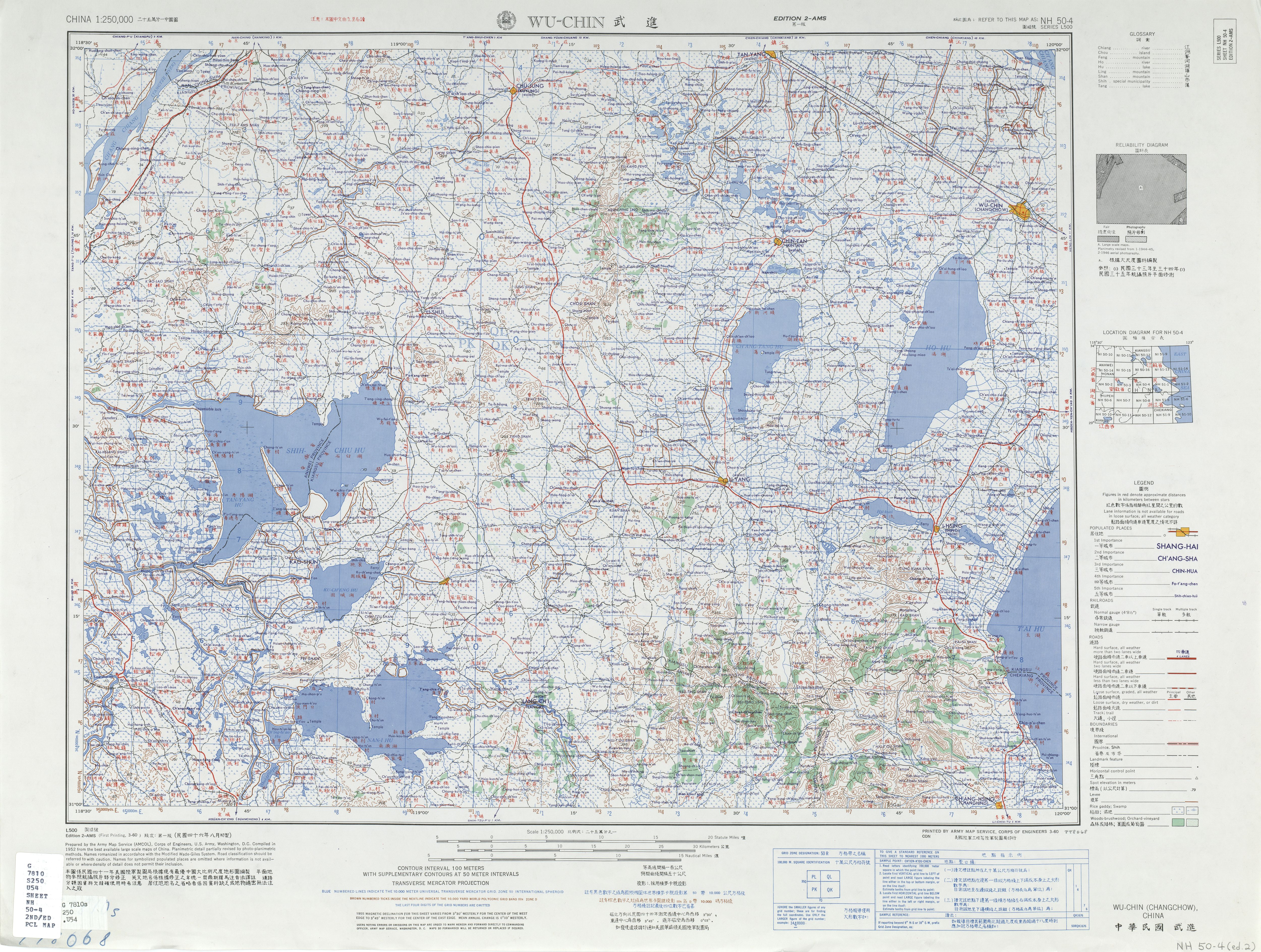 Map of Changzhou (Wu-chin, Changchow) and surrounding region, in the China AMS Topographic Maps series